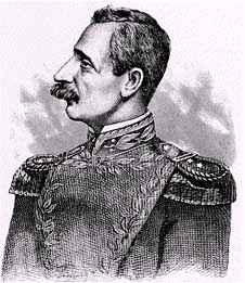 Ezequiel Zamora, Venezuelan military man of the XIXth century